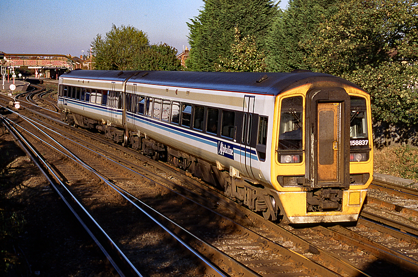 BR DMU 158837 Express Sprinter, consisting of vehicles 52837+57837, in Regional Railways livery with Alphaline branding at St Denys. Scanned from a Fujichrome 35mm slide.